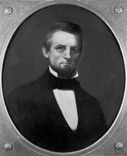 T Polk